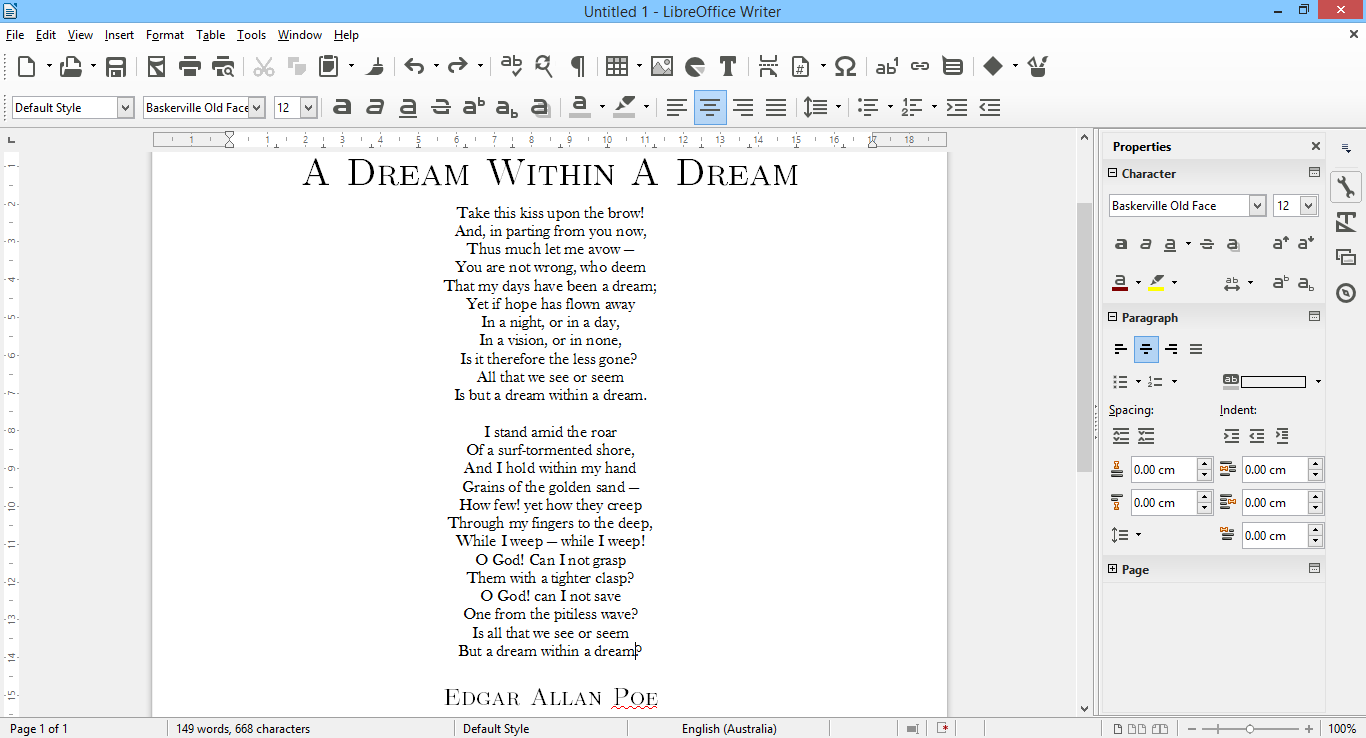 Screenshot of libreoffice writer 4.4